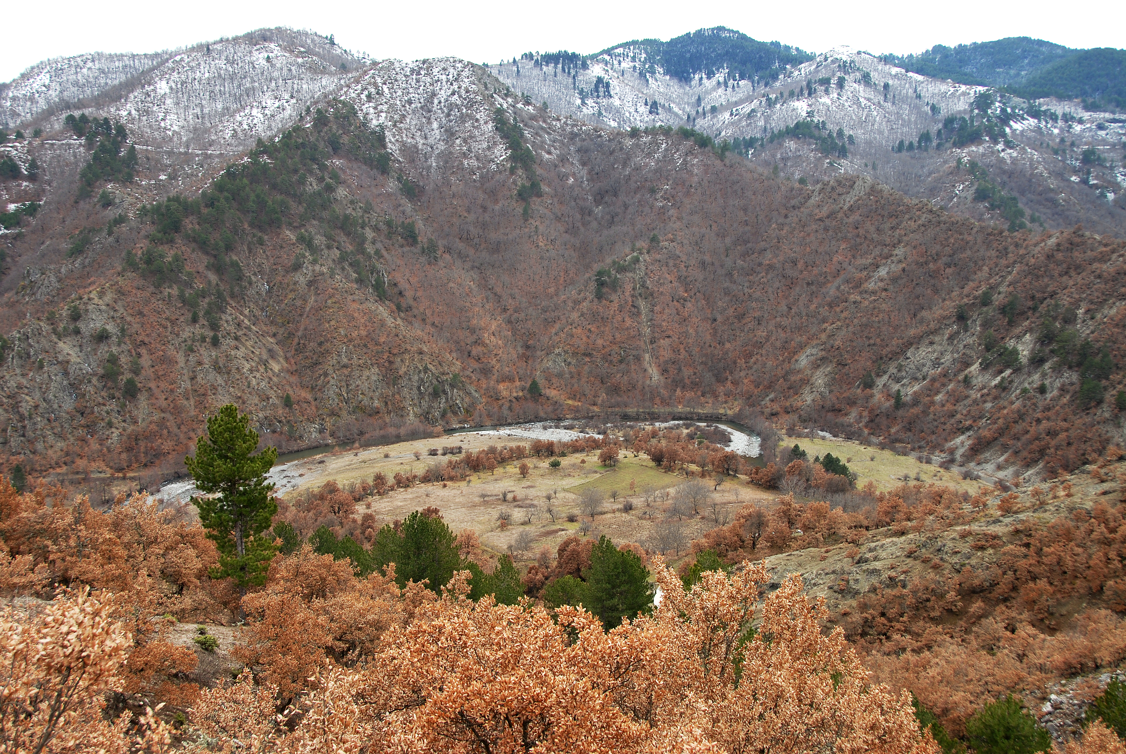 This is a photography of Natura 2000 protected area with ID GR1310003